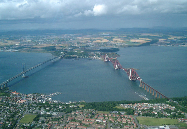 Forth Road and Rail Bridges